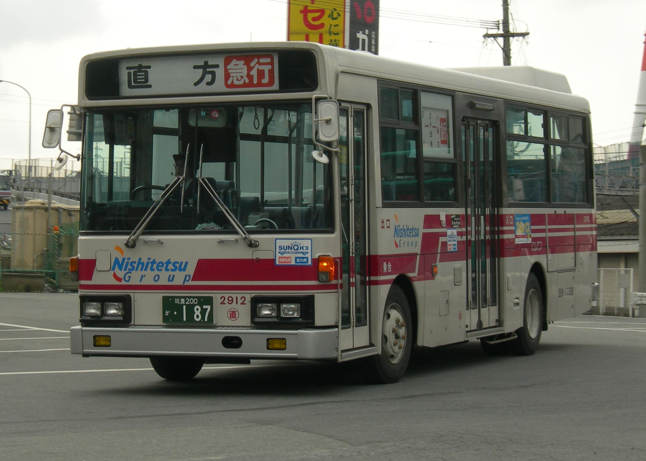 Isuzu Journey-K for Nishitetsu Bus Chikuho Nogata-Kurosaki Express Route